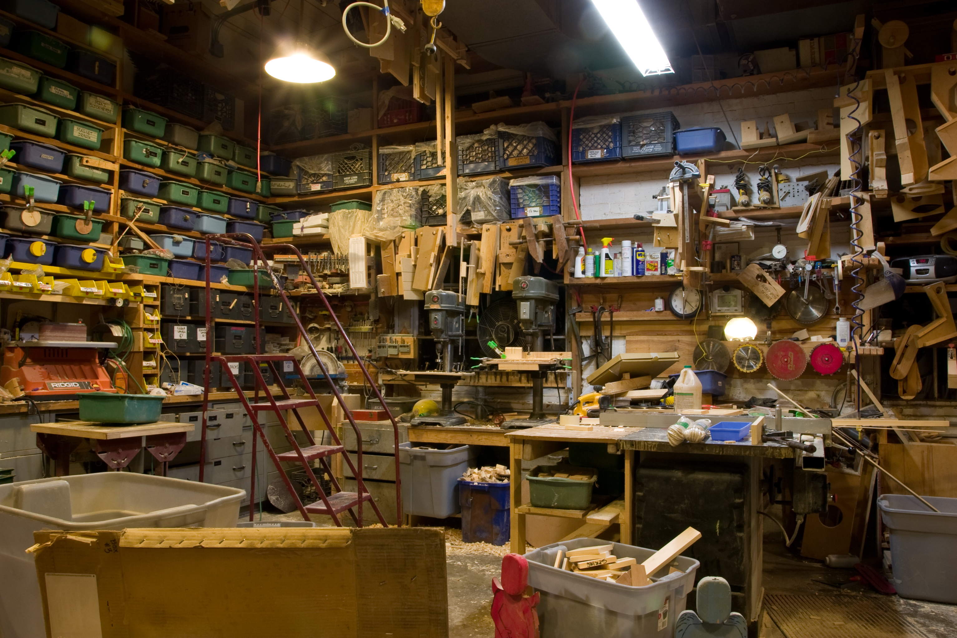 The timeworn workshop at the Eli Whitney Museum.